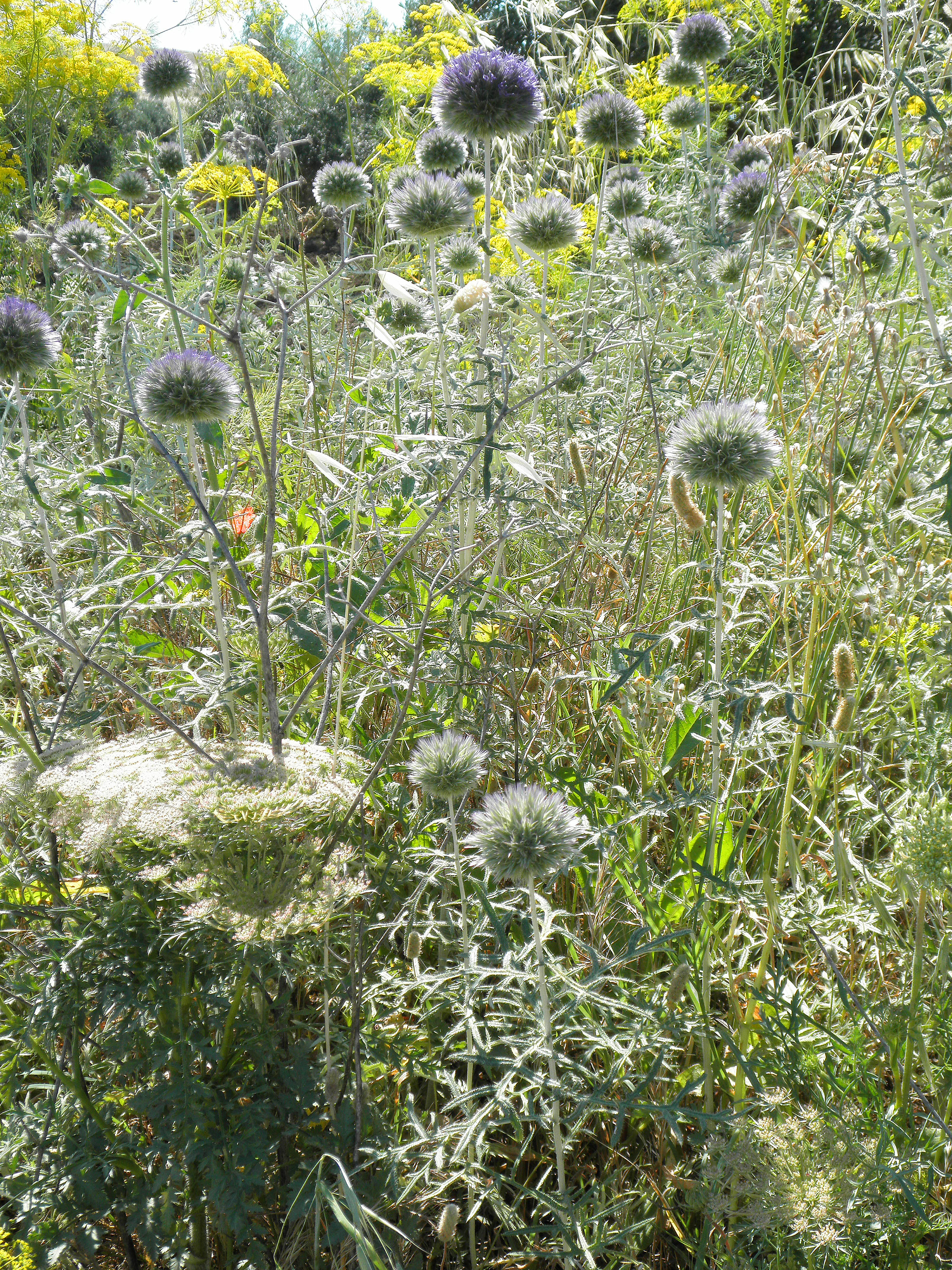 Echinops strigosus habitat, land of Córdoba Baena, Córdoba, Spain